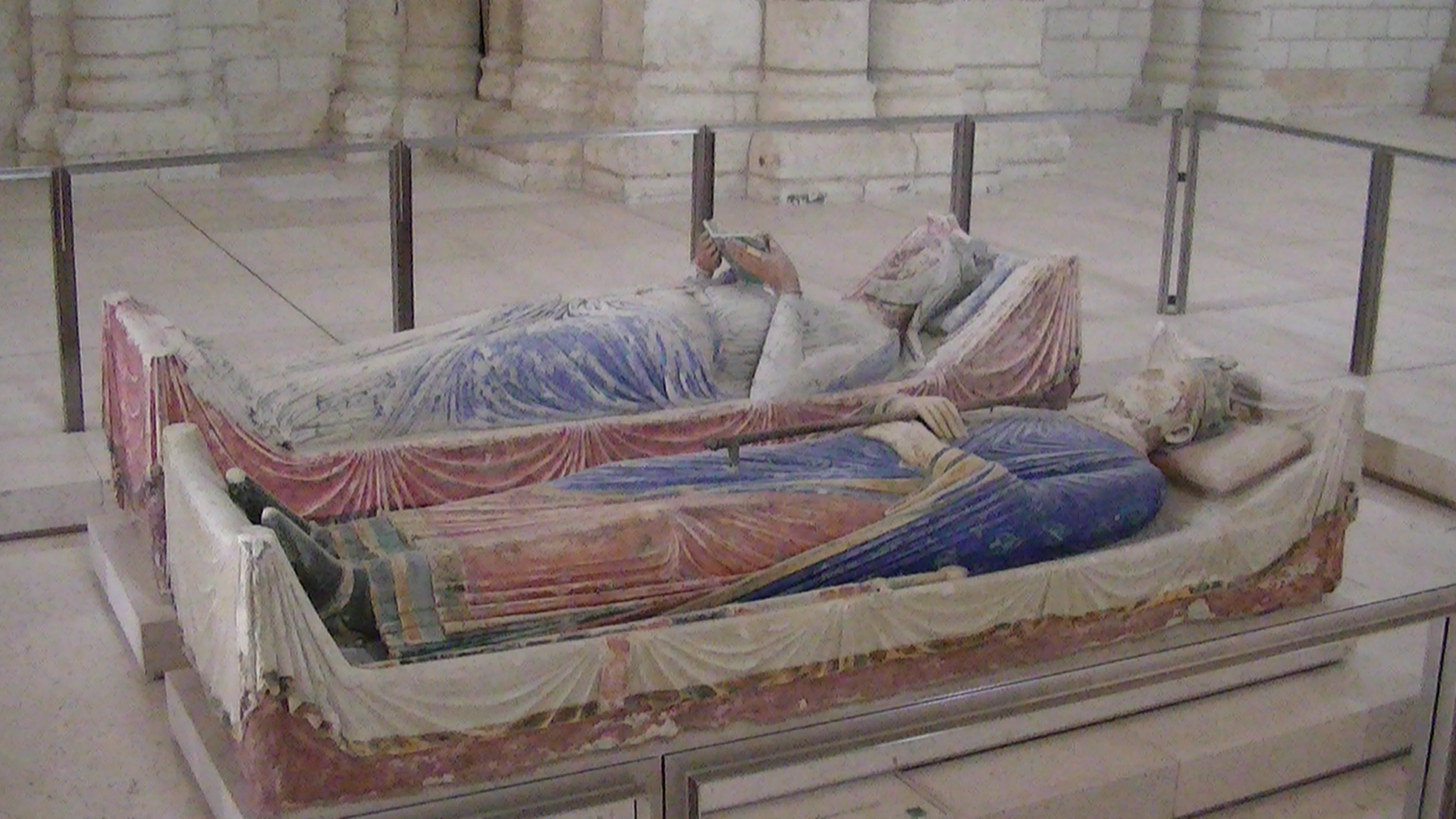 Effigies of Eleanor of Aquitaine and Henry II of England in the church of Fontevraud Abbey